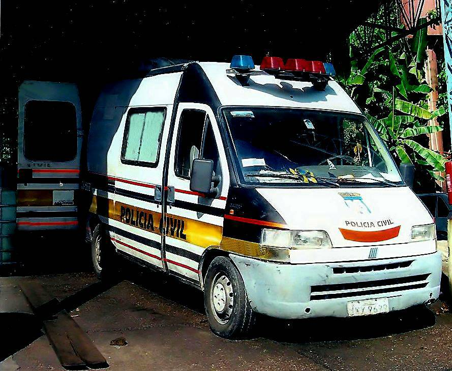 Fiat Ducato Mk2 police car in Amazonas state, Brazil.